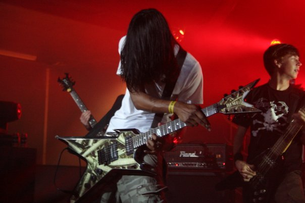 Shay Kallie